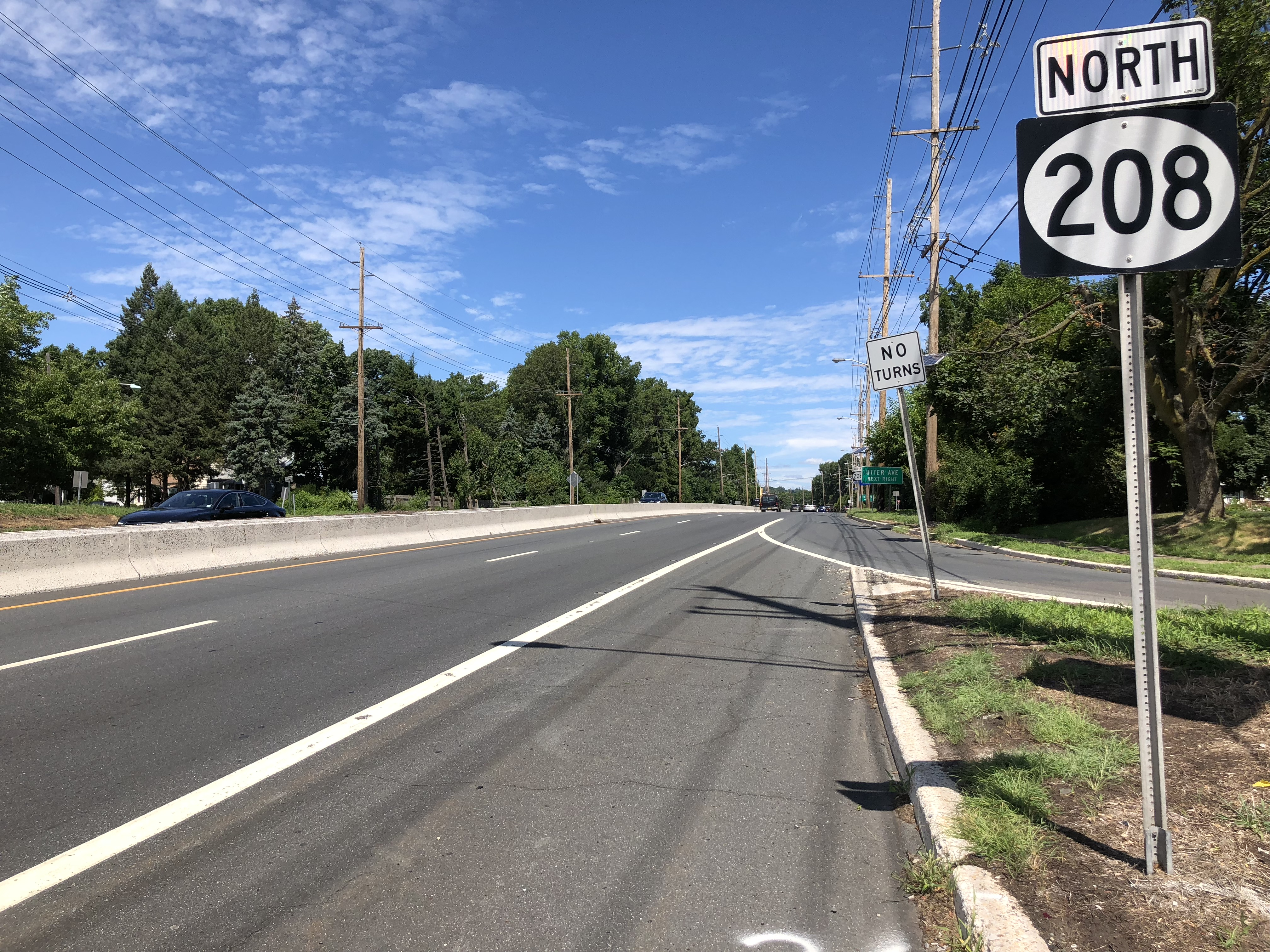 View north along New Jersey State Route 208 just north of Passaic County Route 653 (Lincoln Avenue) in Hawthorne, Passaic County, New Jersey